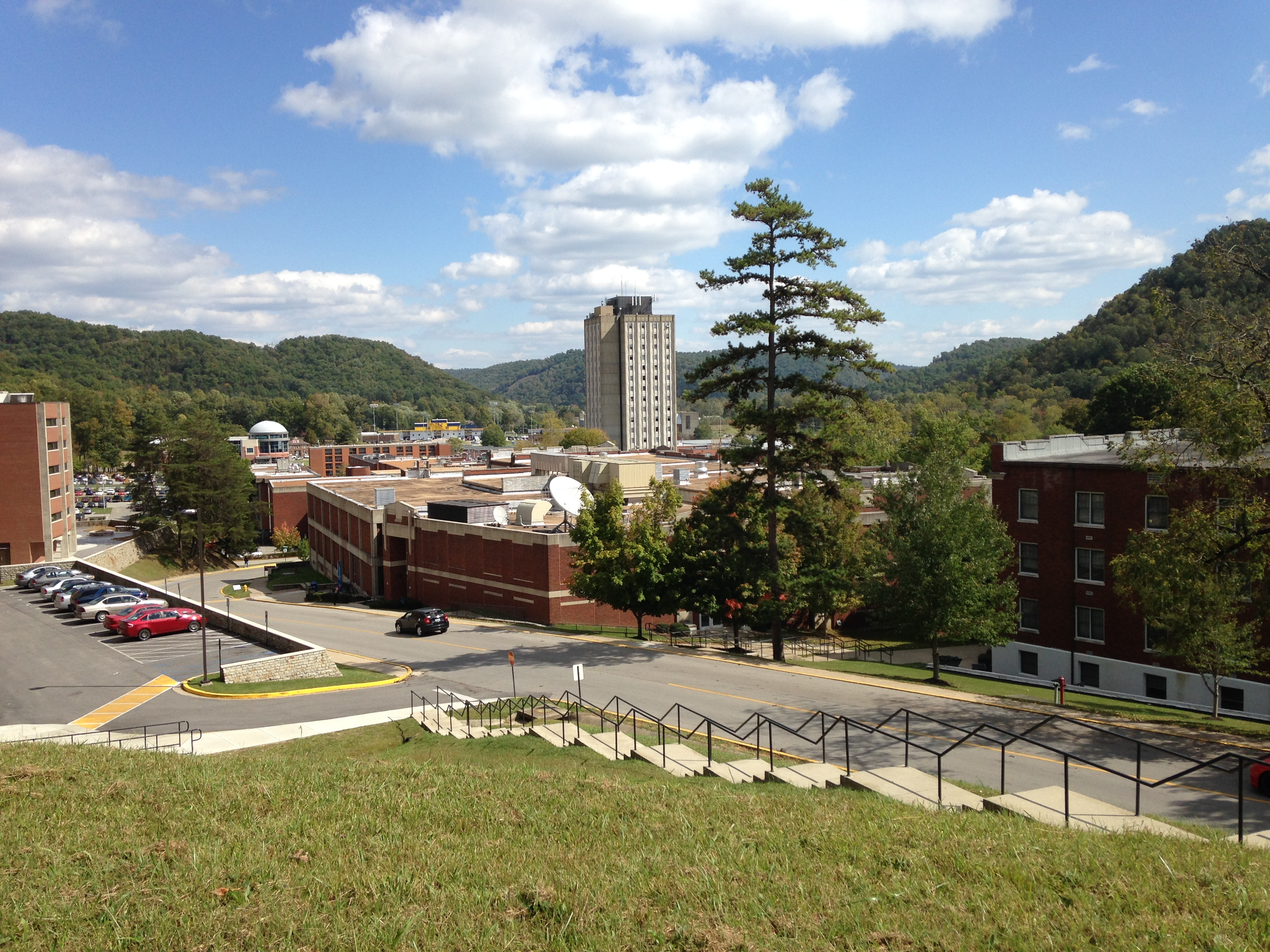 View from West Mignon Hall of Morehead State University campus.